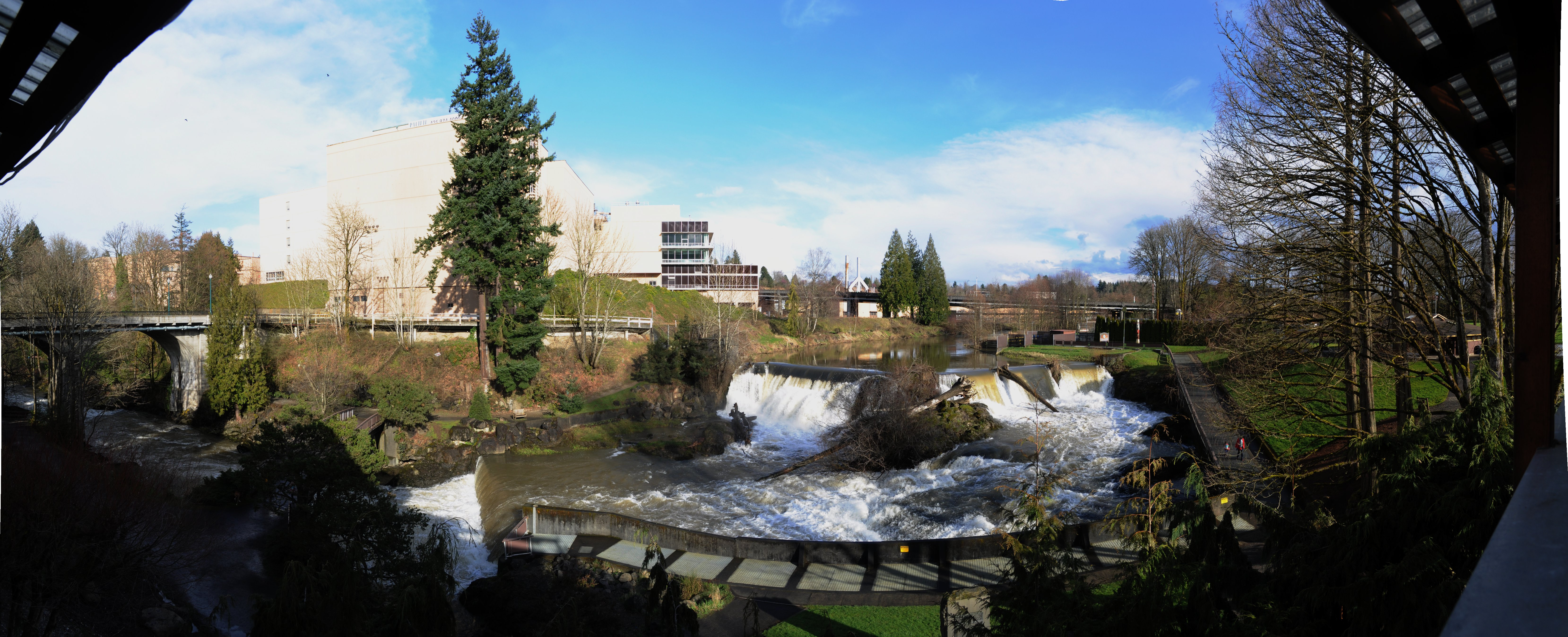 Panoramic view of the falls at Tumwater, Washington. This image was created with Hugin